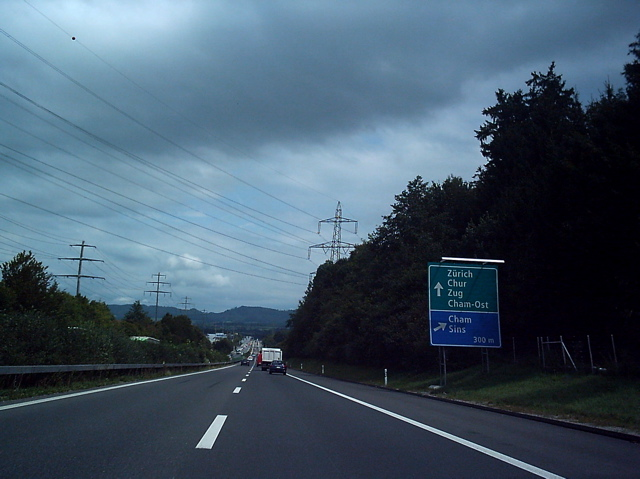 Power line Benken–Mettlen and A4 Autobahn at Cham, Switzerland.